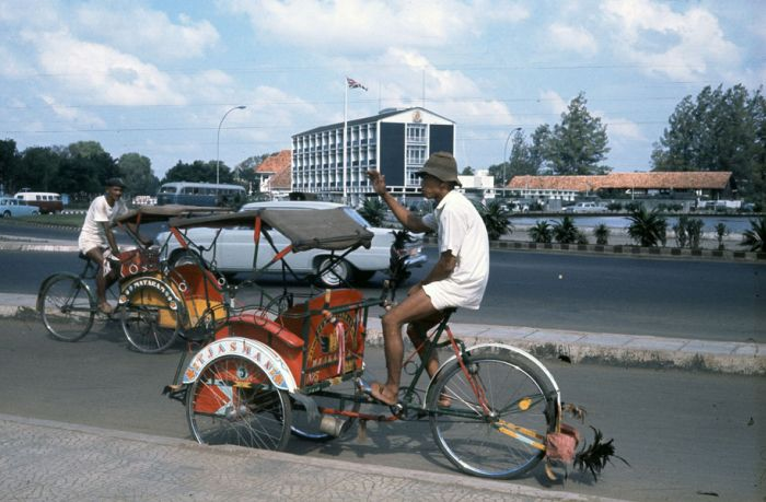 Becaks in front of the British embassy